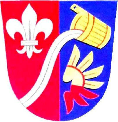 Coat of arms of Nemochovice village, Vyškov District, Czech Republic.